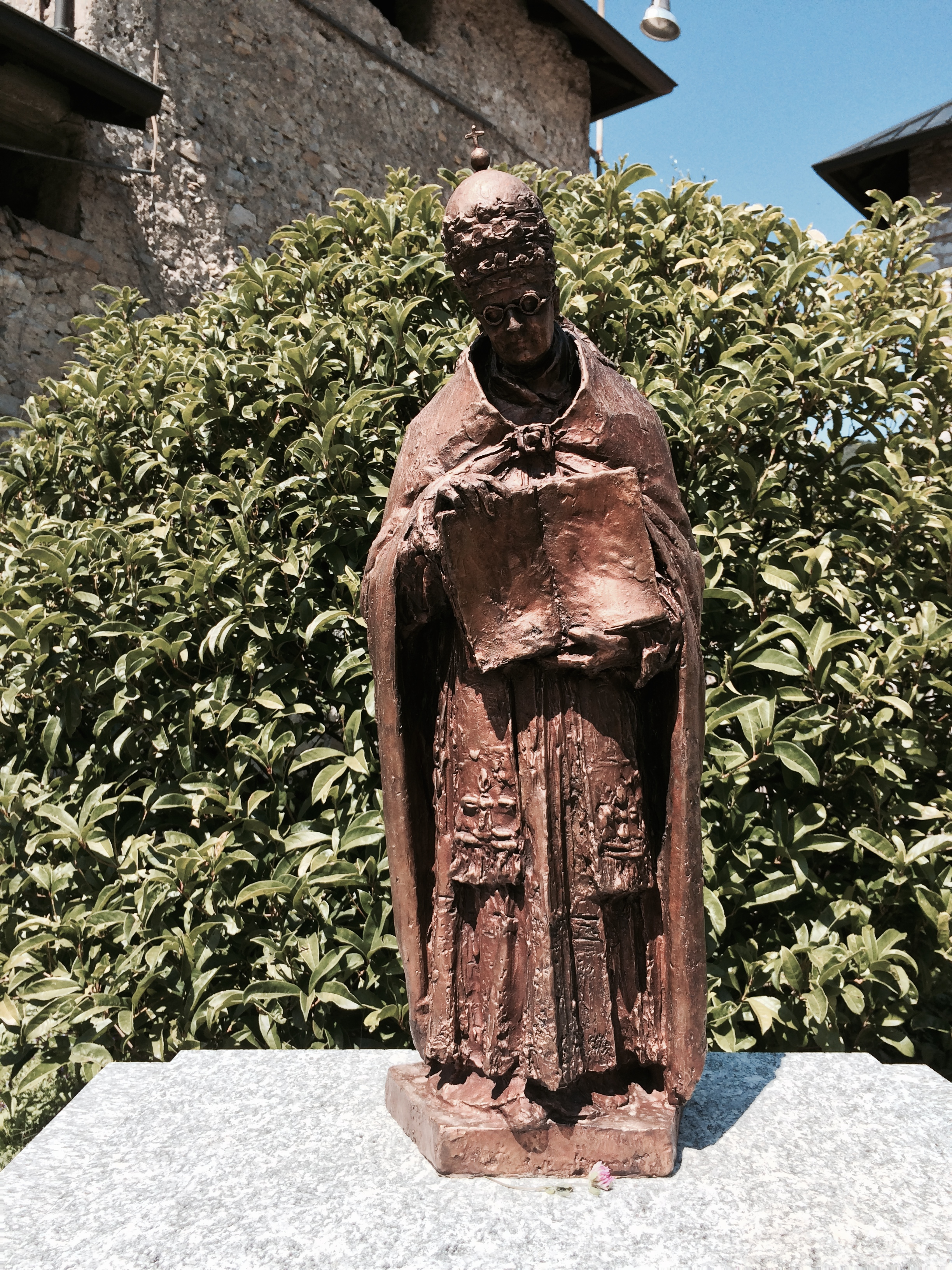 Park Michele Vedani in Esino Lario. Sculpture of Pope Pius XI by Michele Vedani.